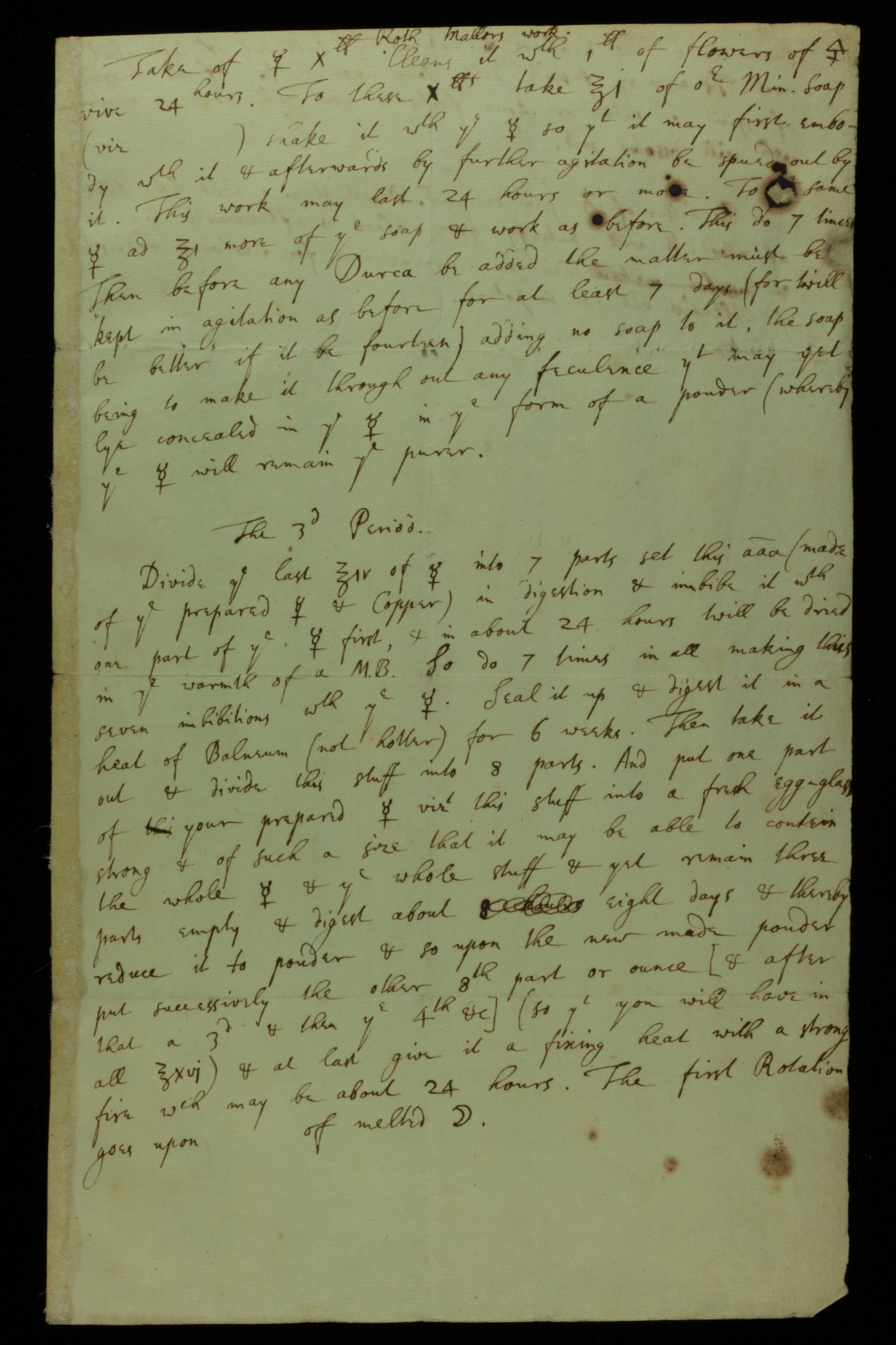 Isaac Newton alchemical manuscript, page 1, from the library of the Science History Institute. Isaac Newton left behind alchemical notes amounting to an estimated one million words written in his own hand. This page shows two steps (“periods”) in the manufacture of the philosophers’ stone that were drawn from a work by the obscure German alchemist Erasmus Rothmaler (“Roth Mallor” in Newton’s manuscript). I. Alchemical recipes -- 2 stages of "Roth Mallors work" -- recipes for "a menstruum that will disolve gold" -- "a menstruum for resolving bodies like the Alkahest but not so potent" Folio 1, the Newton autograph "Roth Mallor's Work" is Sotheby Lot 18(c) = Portsmouth Catalogue, section II, parcel 4, item 7.